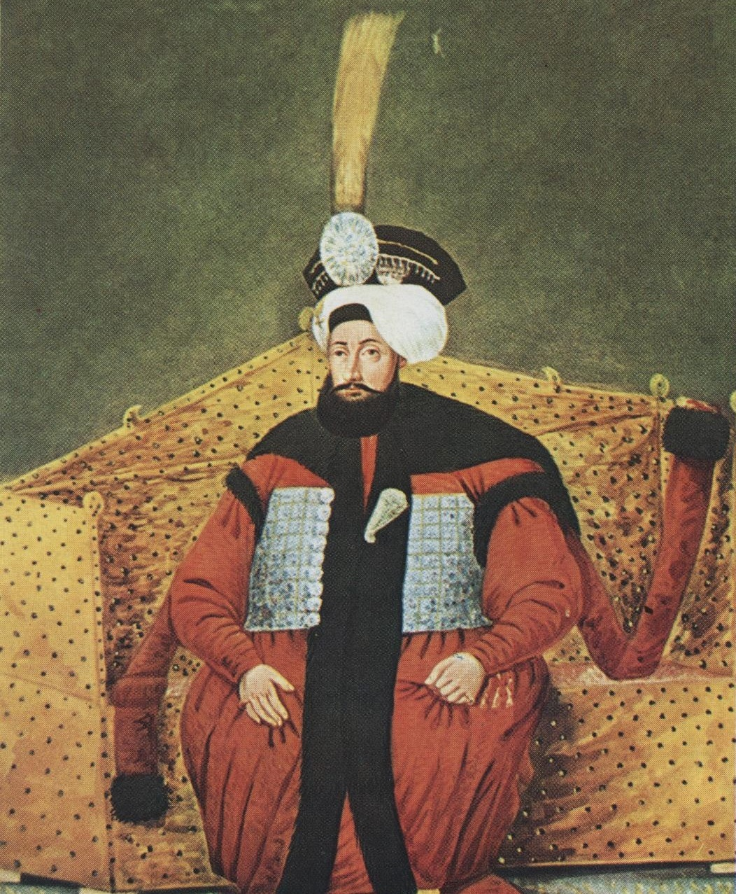 Mustapha IV